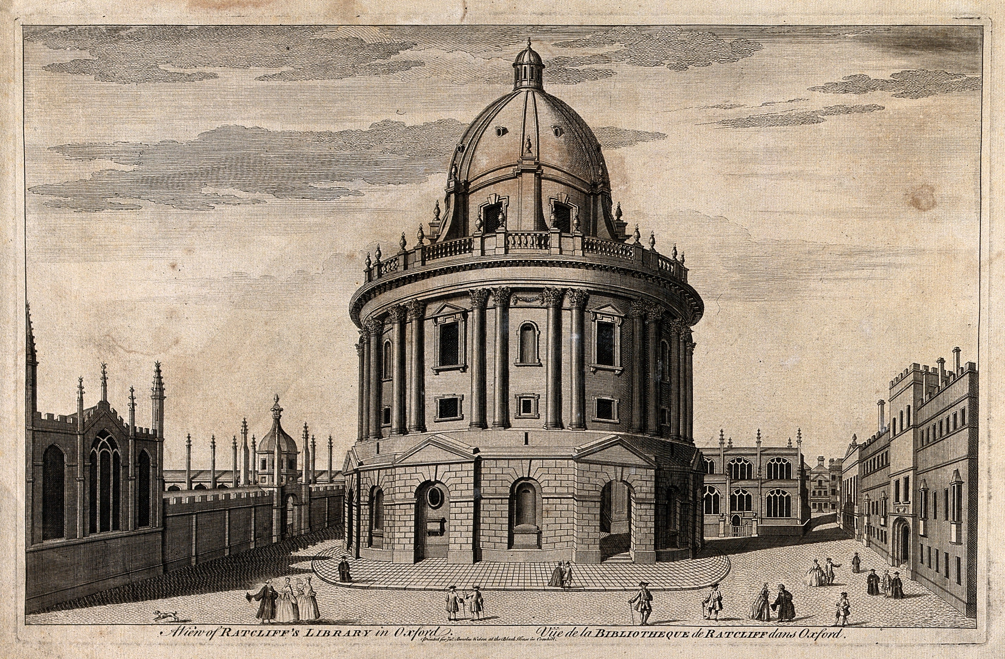 Radcliffe Camera, Oxford: panoramic view with All Soul's College, Brasenose College and the Bodleian Library. Line engraving. Iconographic Collections Keywords: Radcliffe Camera (Oxford); University of Oxford